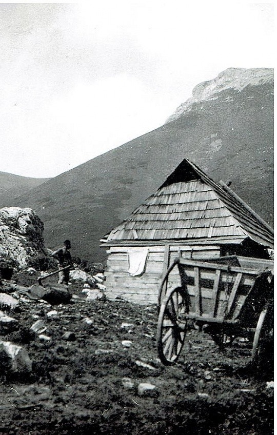 Shepherds have used Predné Meďodoly, a valley in the High Tatras (Slovakia) for grazing cattle and sheep since ancient times. By the end of World War II, a shed was standing here.